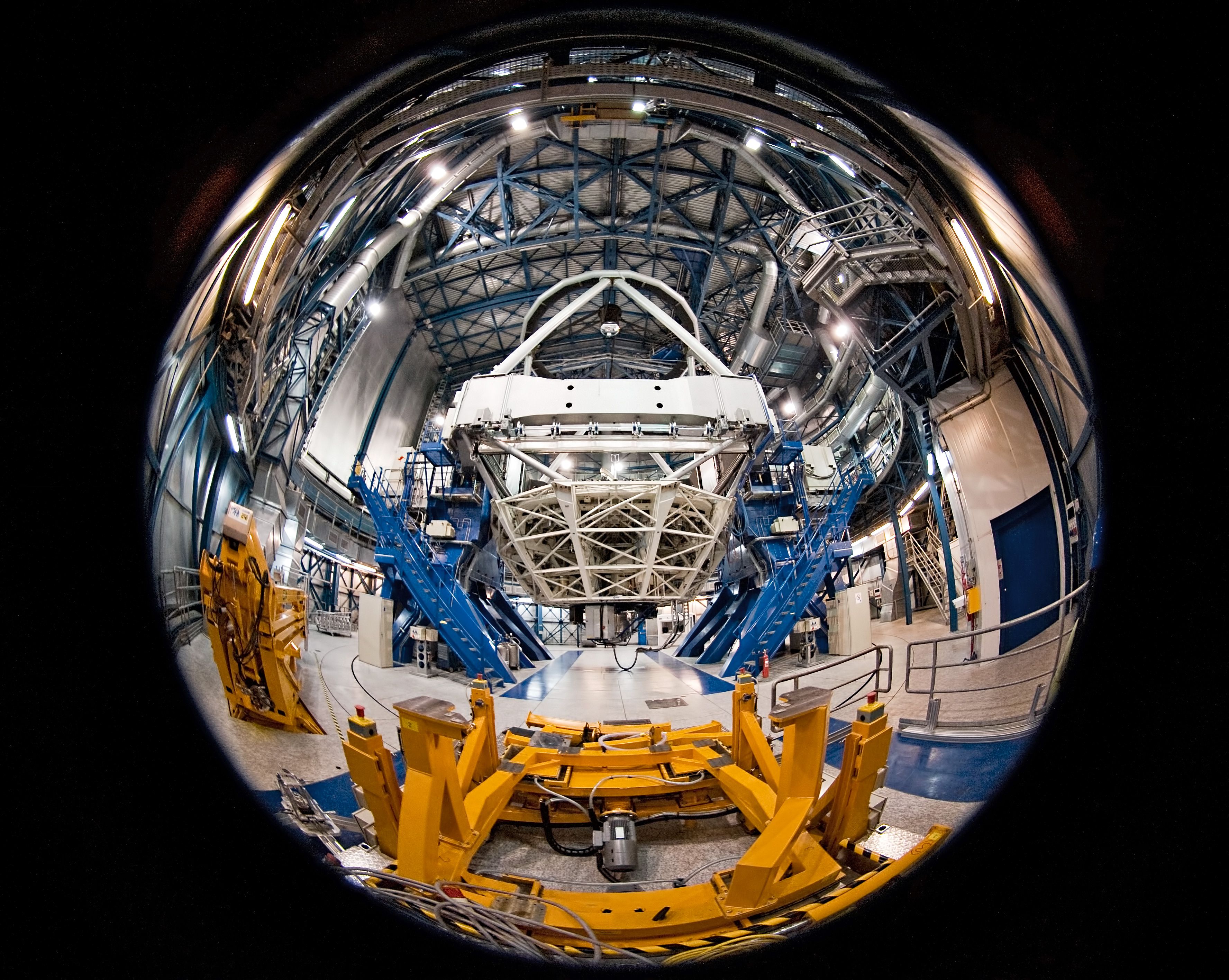 Imagine being a fly on the wall of ESO's Very Large Telescope (VLT) at the world's most advanced optical observatory. You could have a view a little like this. Fisheye photography gives this unusual view of the 8.2-metre diameter telescope, poised and ready to begin gathering light from the deep recesses of the Universe as soon as the dome opens and starlight pours in. The VLT has four of these 8.2-metre Unit Telescopes, called Antu, Kueyen, Melipal and Yepun. These are the Mapuche names for the Sun, Moon, Southern Cross and Venus. This photograph shows Yepun. The names are from the native language of the indigenous people who live mostly in the area south of the Bio-Bio River, some 500 km south of Santiago de Chile. The VLT is so powerful that it allows us to see objects four thousand million times fainter than those that can be seen with the unaided eye. This has helped make ESO the most productive ground-based observatory in the world. Links * More information about the names of the VLT Unit Telescopes: * Take a Virtual Tour of the VLT